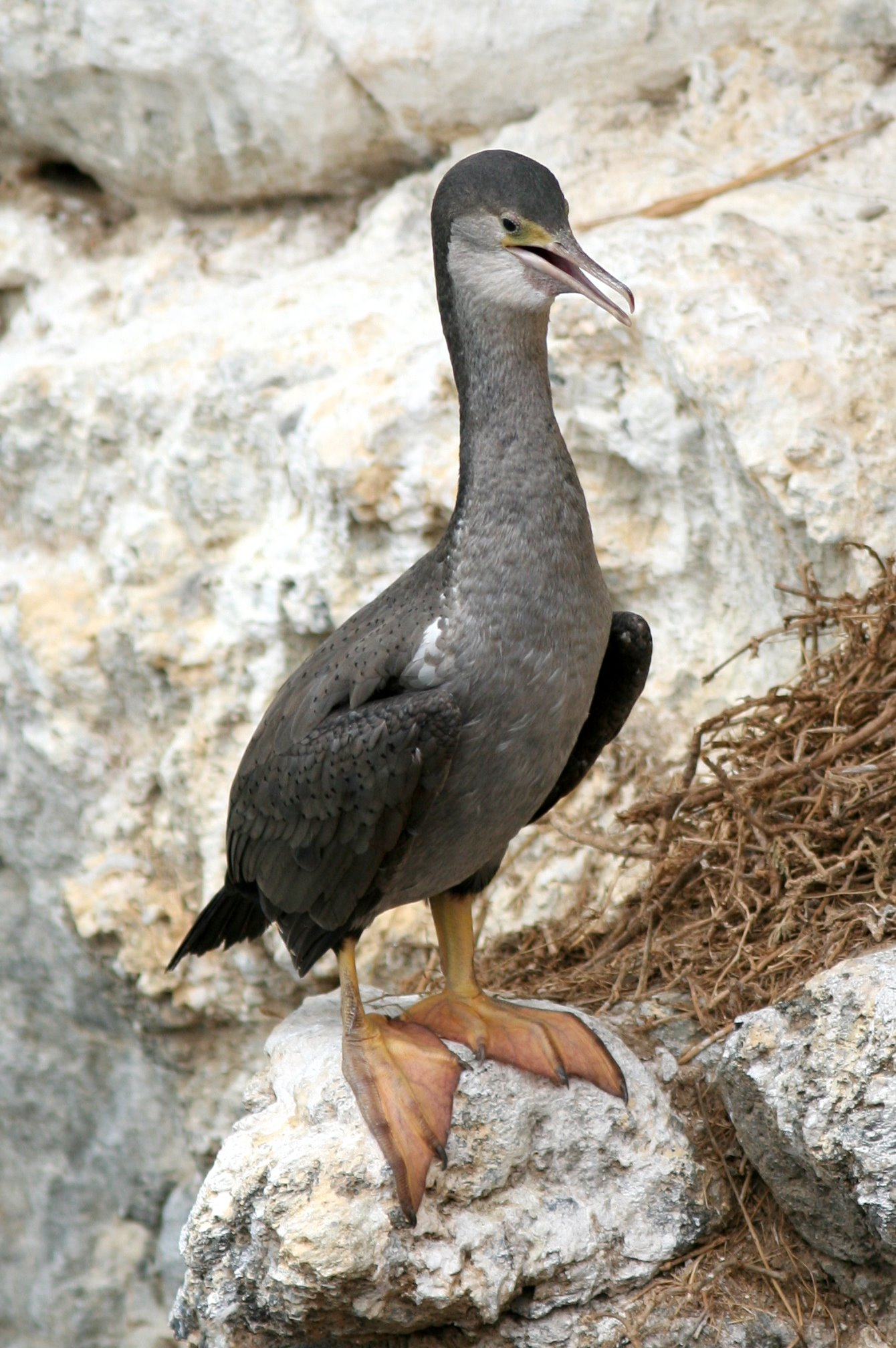 Spotted Shag Phalacrocorax punctatus, juvenile wild bird